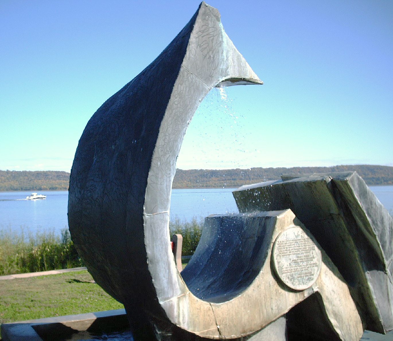 Photo I took 2006-09-30 of the monument commemorating the invention of water skiing on the Mississippi River in Lake City, Minnesota. CC & GFDL.